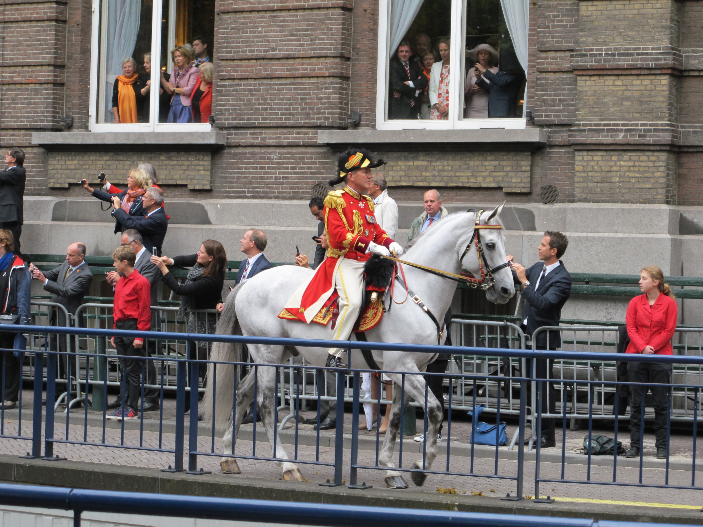 Prinsjesdag 2013, Royal Tour on the way back after the Speech from the Throne. Photos on Plein, The Hague.